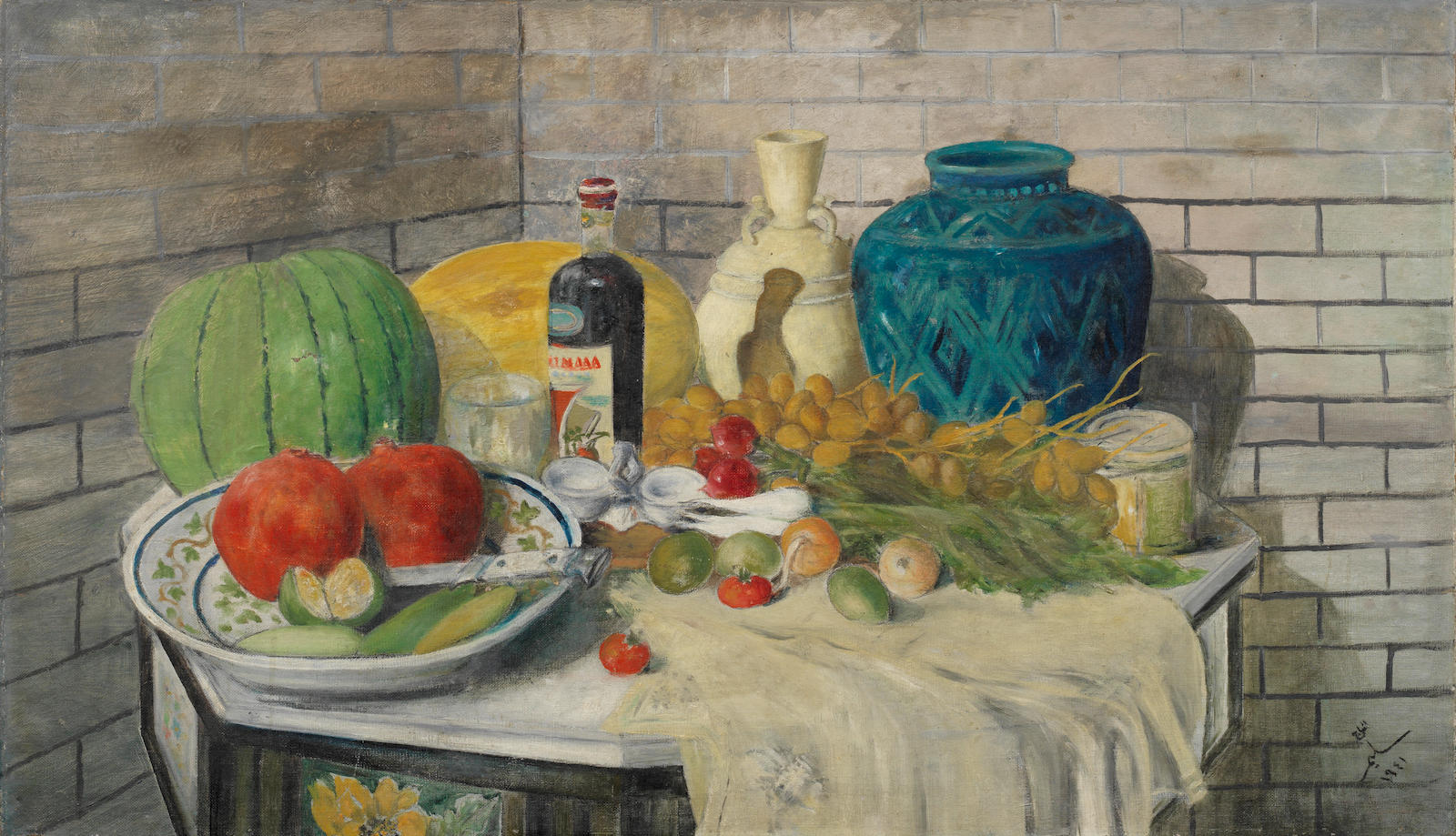 Still Life by Mohammed Hajji Selim (1883-1941) - painting dated 1941